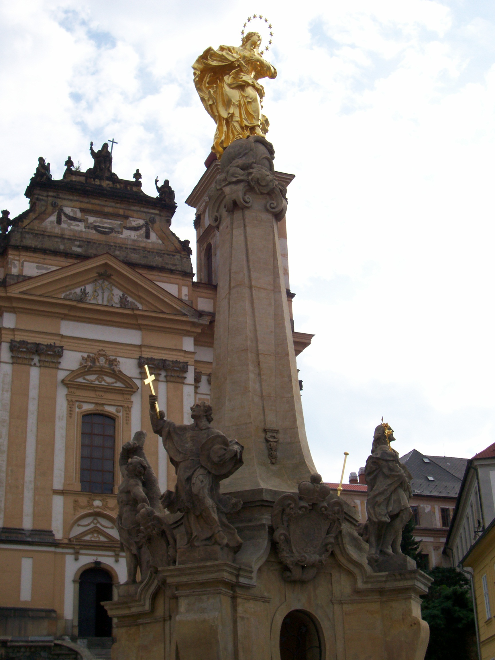 Šternberk: Marian Column